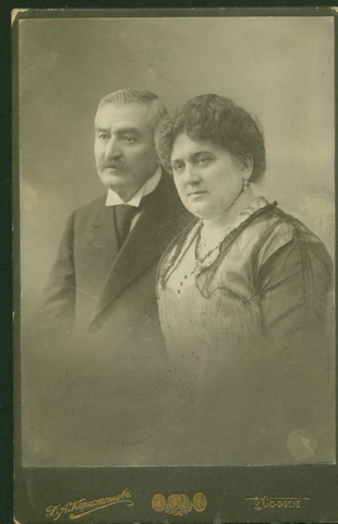 Dimitar Shavkulov and his wife